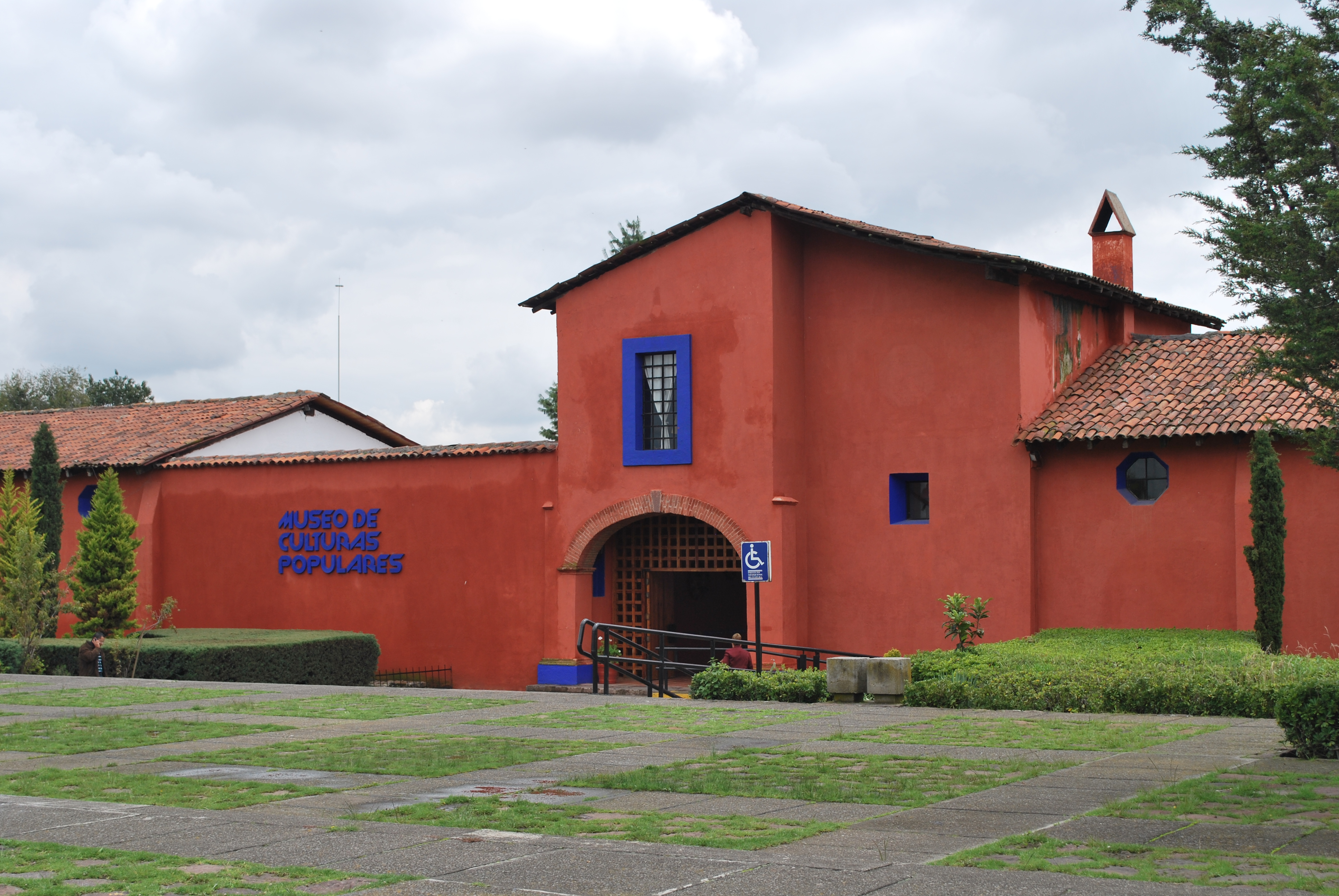 View of the Museo de las Culturas Populares of the Centro Cultural Mexiquense in Toluca, Mexico